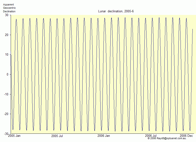 Conversion of :Image:LunarDec2006.gif Plot of the geocentric apparent declination of the Moon 2005-6 (c)